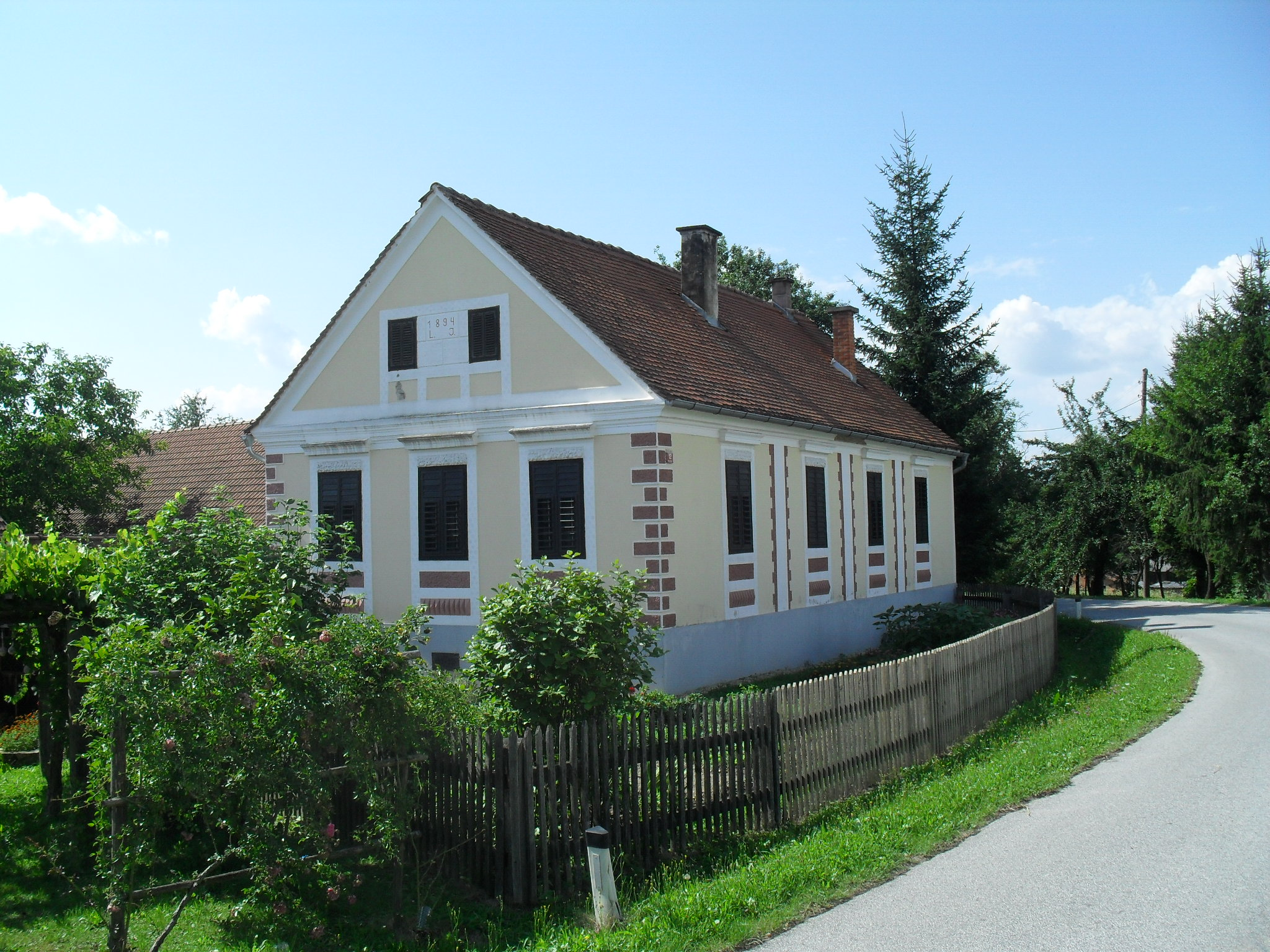 Traditional renovated village house in Dolenci, Prekmurje.